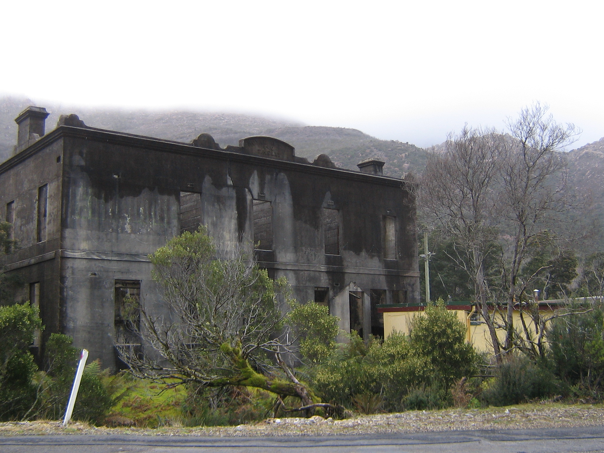 Remains of the Royal Hotel at Linda, Tasmania